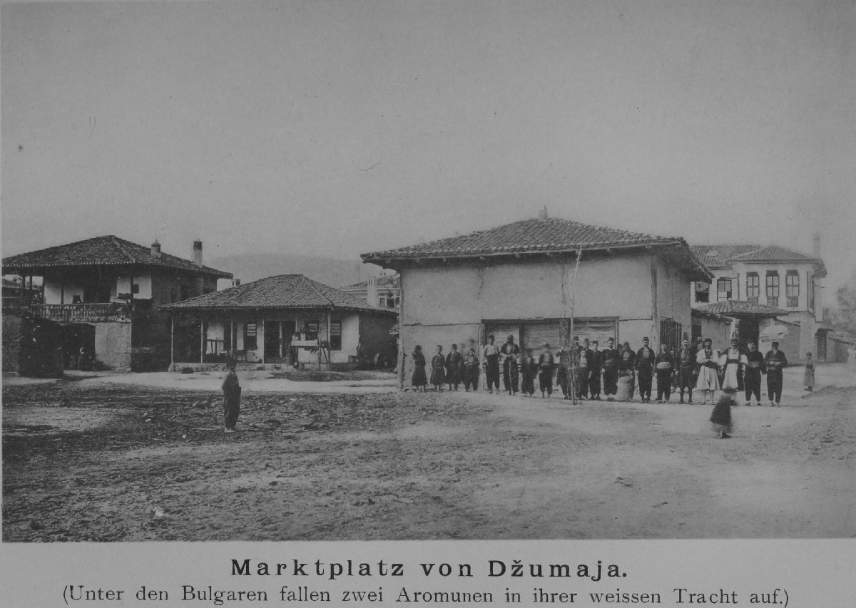 Marketplace in Dolna Dzhumaya by Gustav Weigand